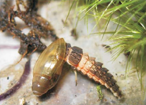 Larva of Alecton discoidalis predation on carnivorous snail Oleacina sp. (family Oleacinidae) in captivity.